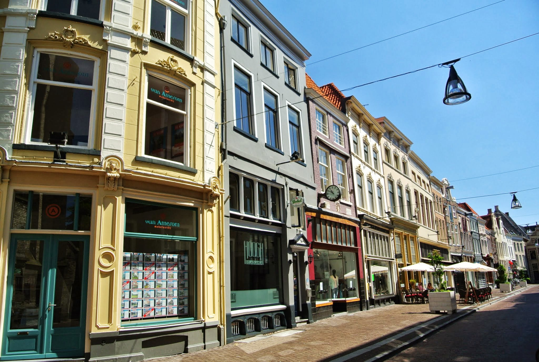 City Centre, 8011 Zwolle, Netherlands